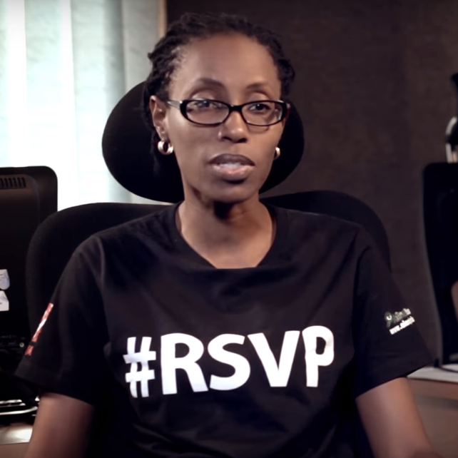 Yemi Adamolekun exec director of Enough is Enough in Nigeria